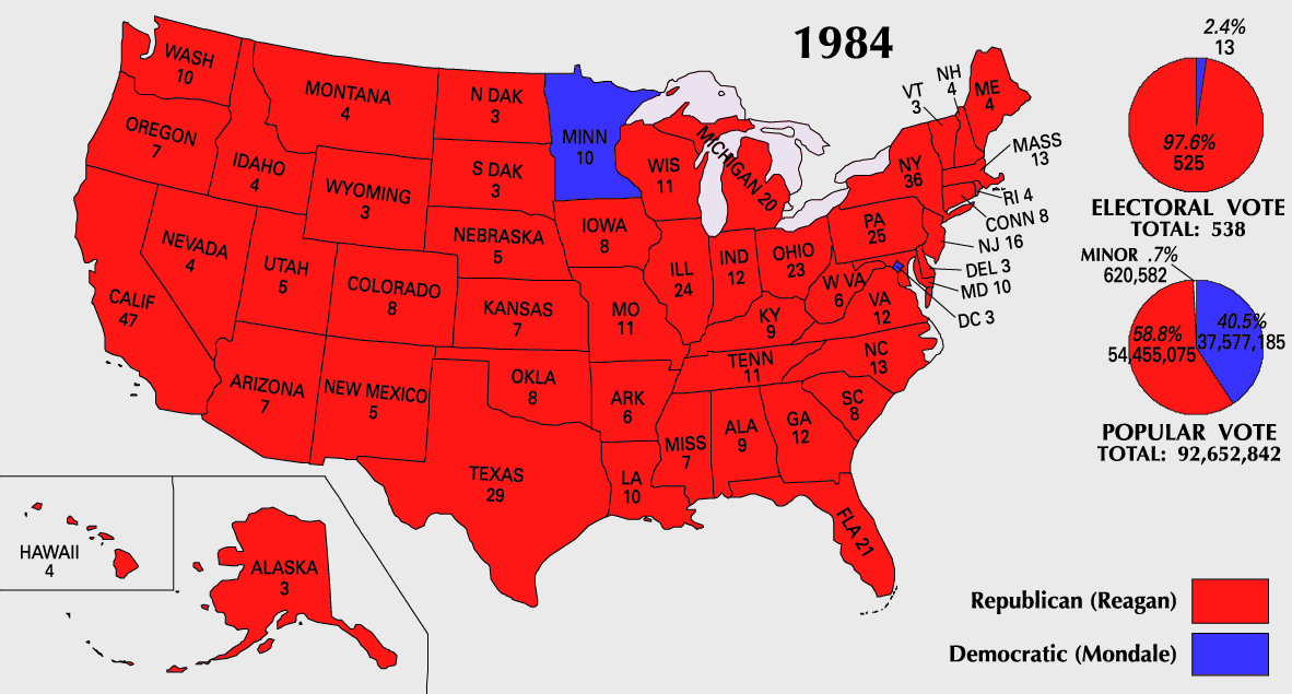 1984 Electoral College Map